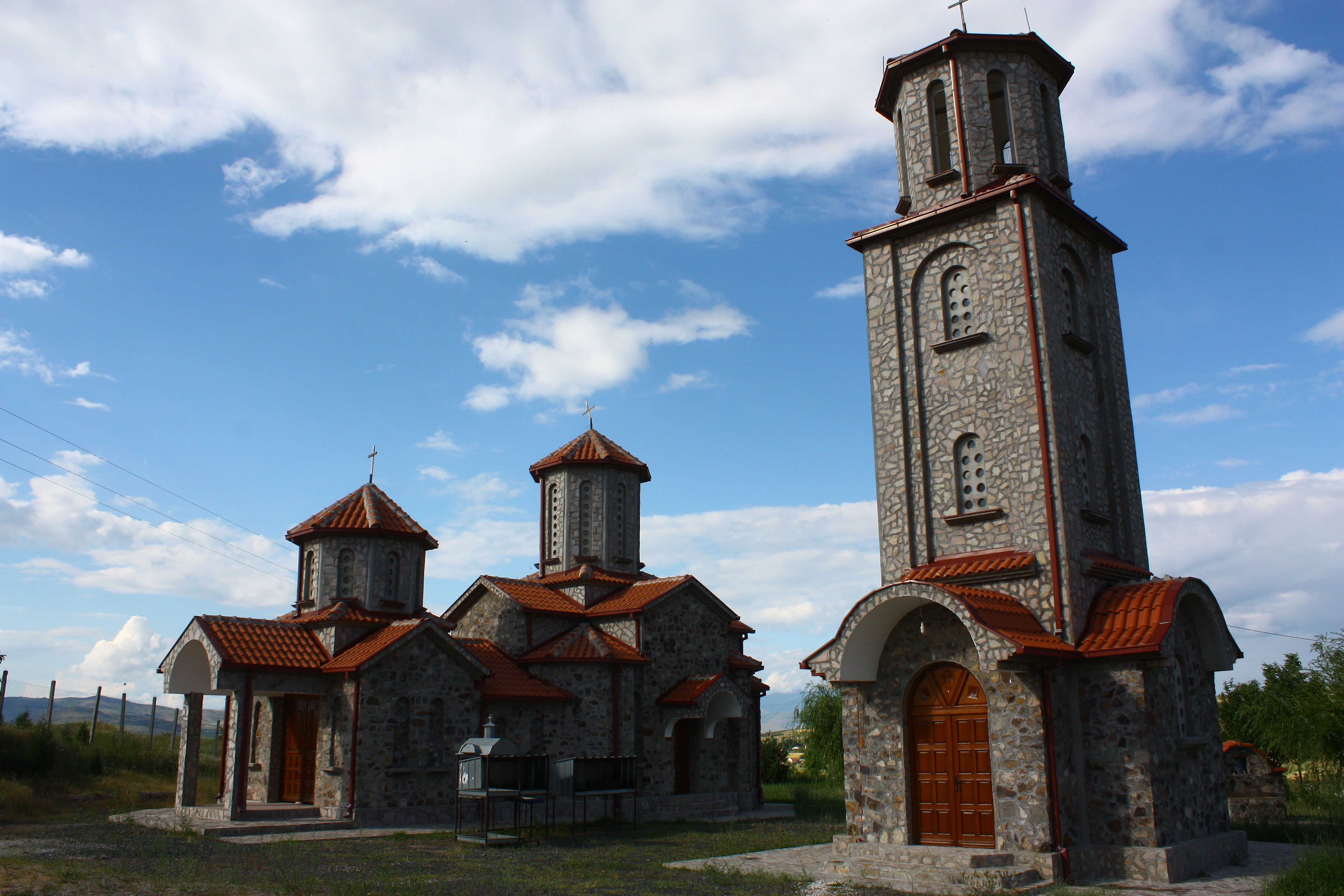 Holy Trinity Church in Štip, Macedonia